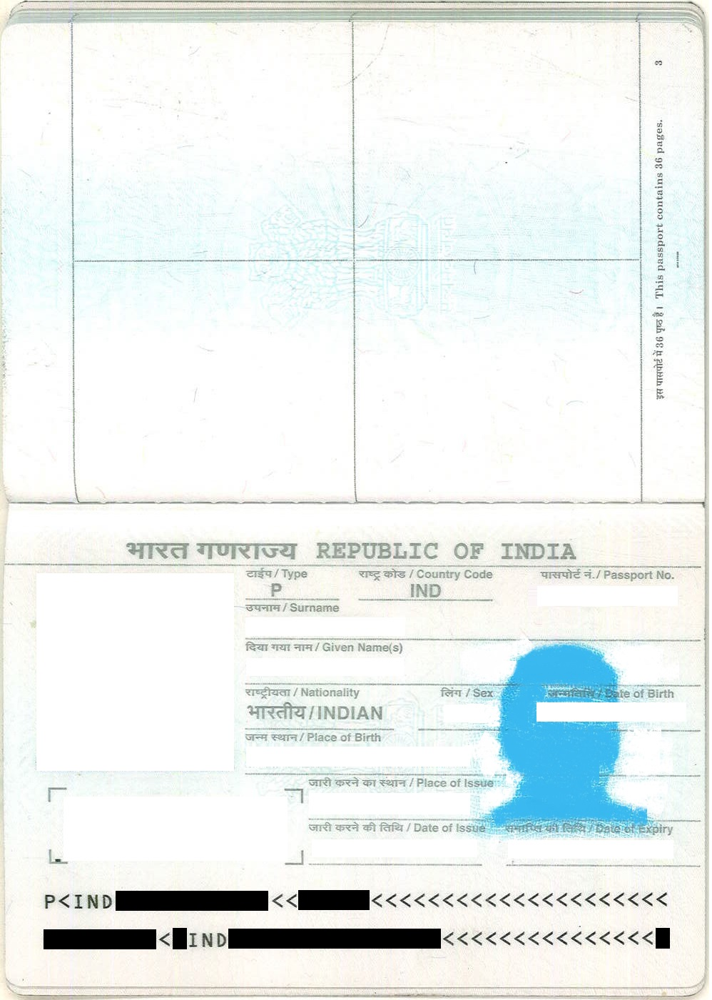 Indian Passport Identity Information Page